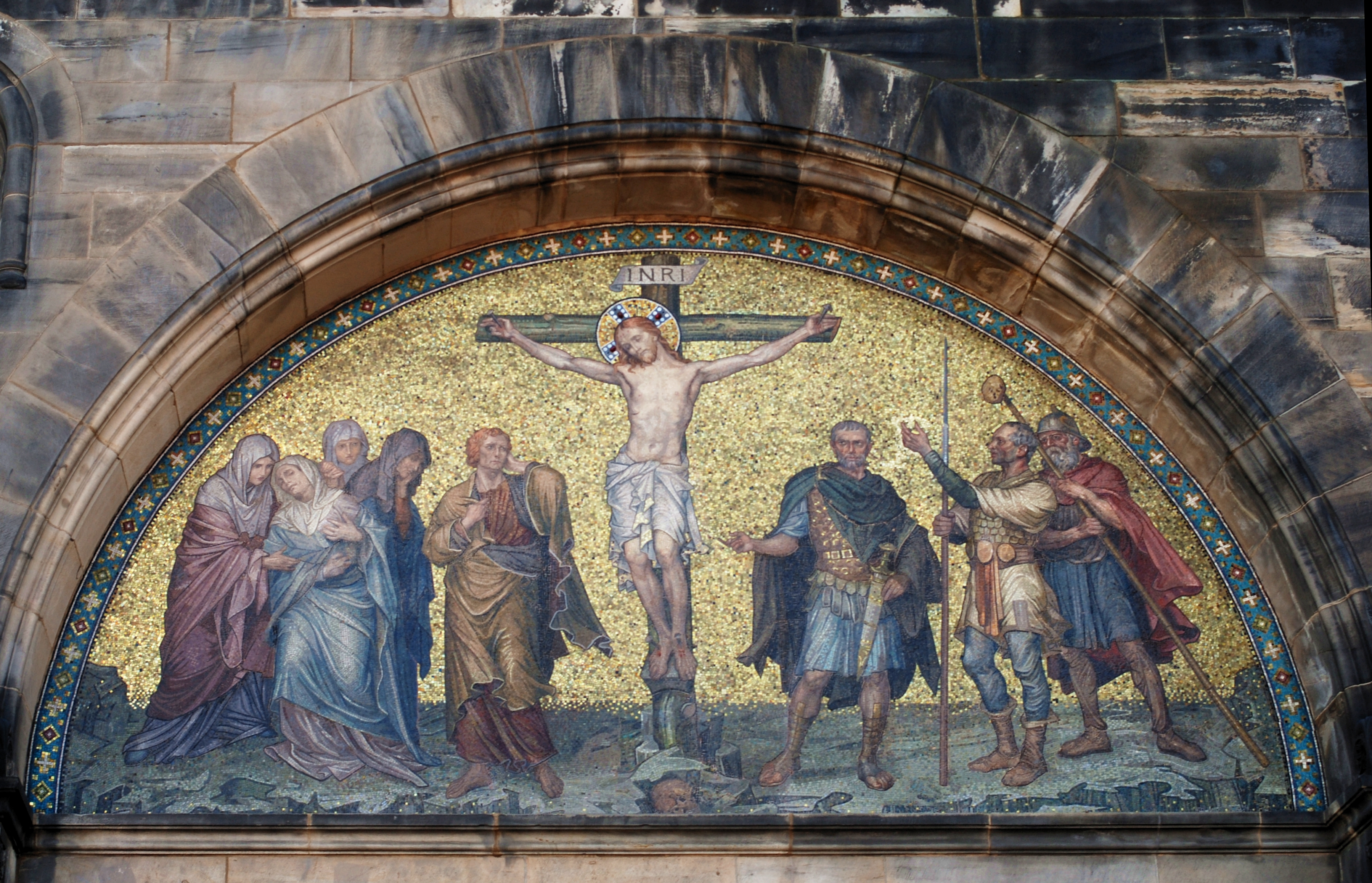 Mosaic in the facade of Bremen Cathedral showing the crucifixion of Christ